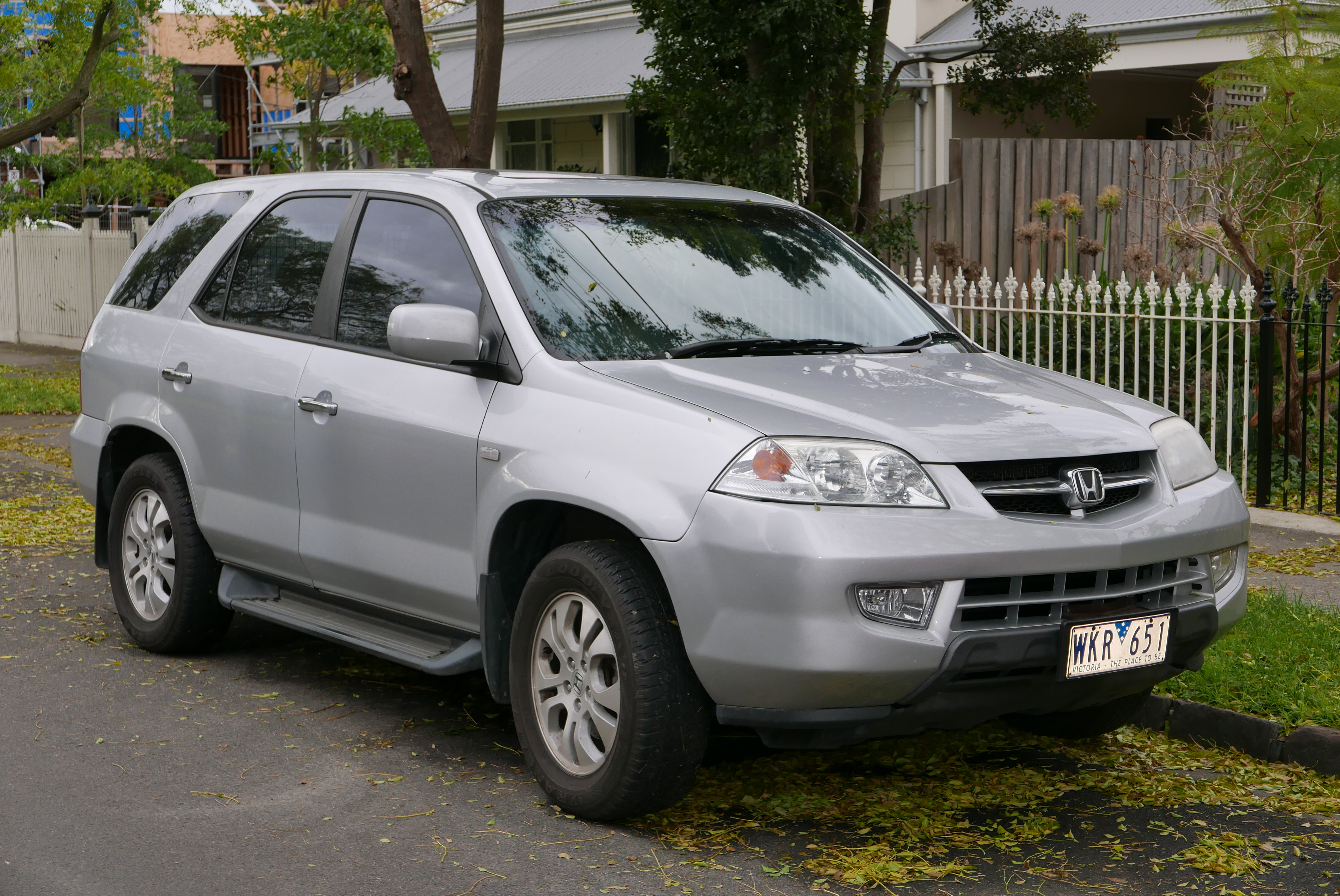 2004 Honda MDX wagon. Photographed in Alphington, Victoria, Australia. Vehicle registration enquiry resultsJurisdictionVictoriaRegistrationWKR651Chassis code2HKYD18643H301478Engine codeJ35A51054070Compliance date2004-02Year of manufacture2004